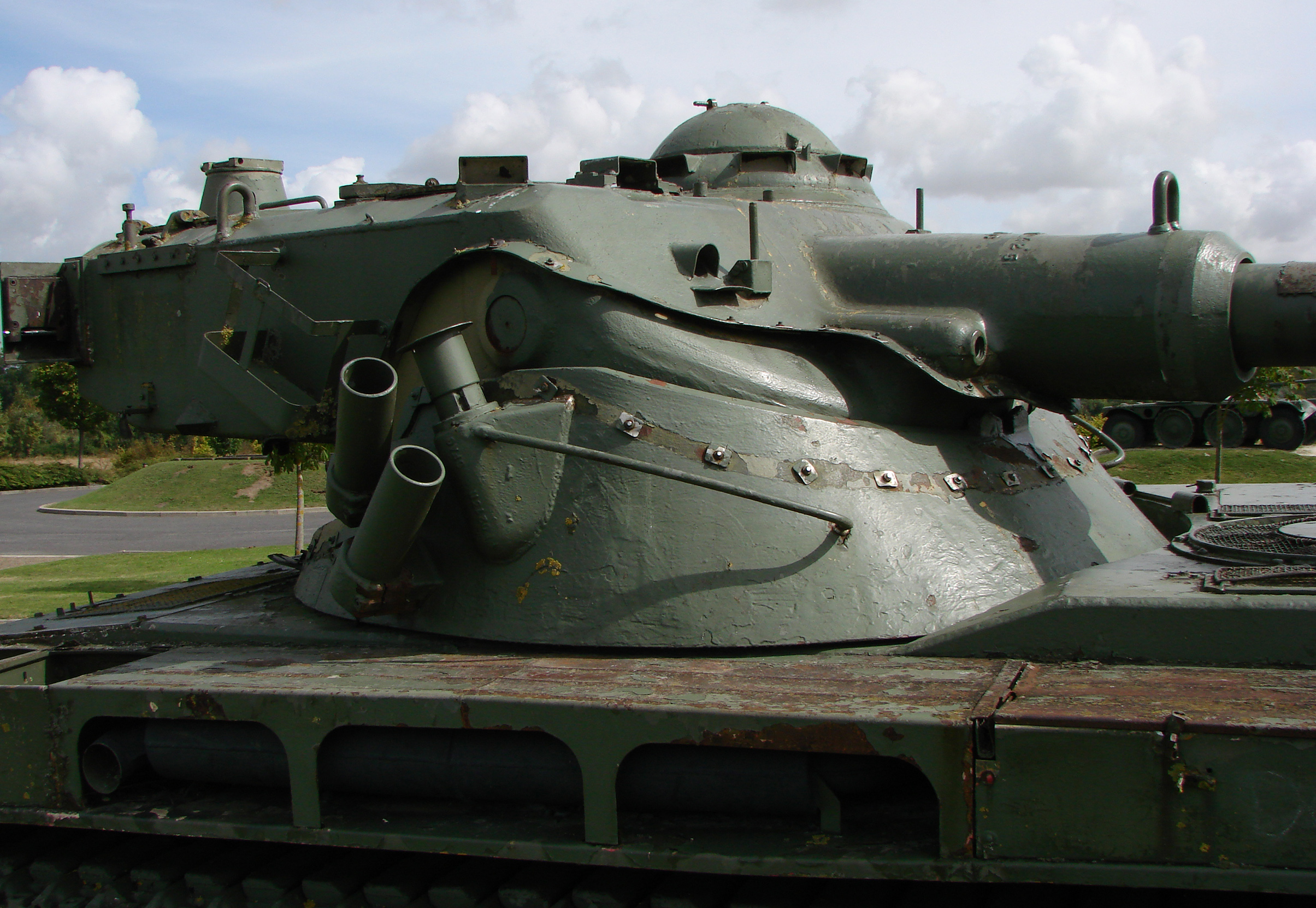 AMX-13.